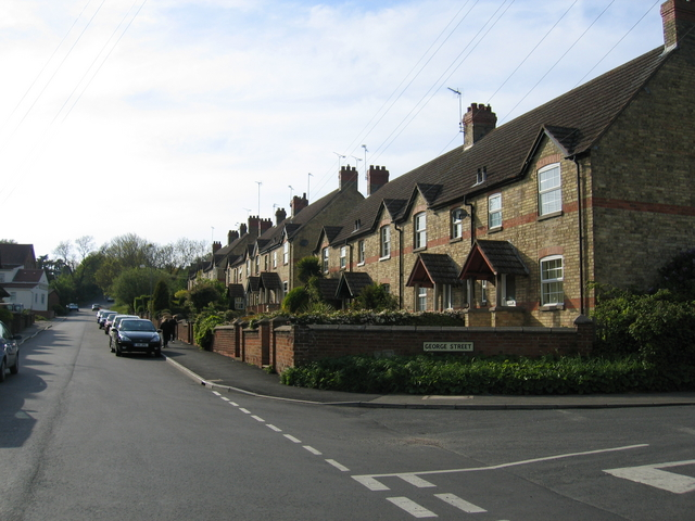 Stockton